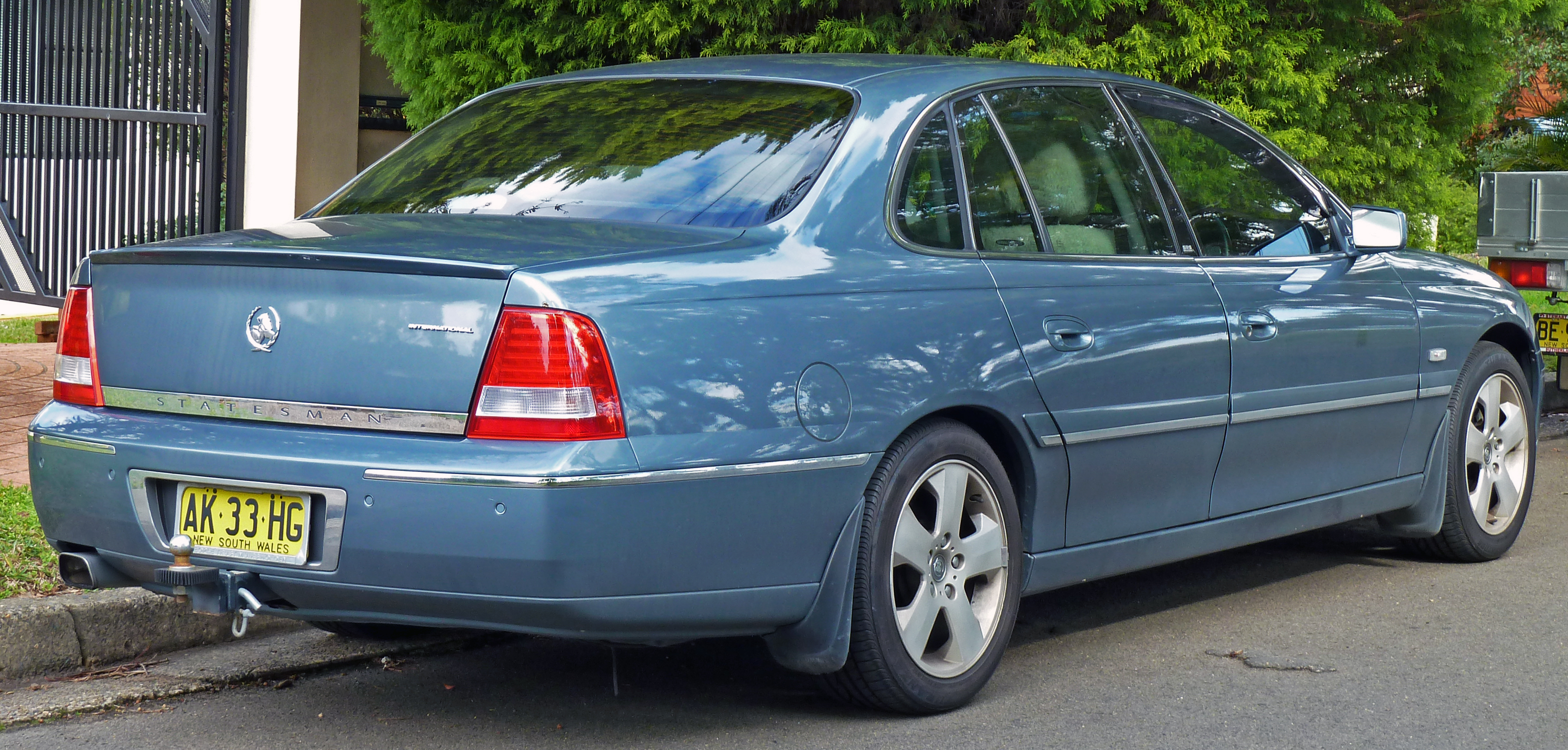 2006 Holden WL Statesman International sedan. Photographed in Gymea, New South Wales, Australia.